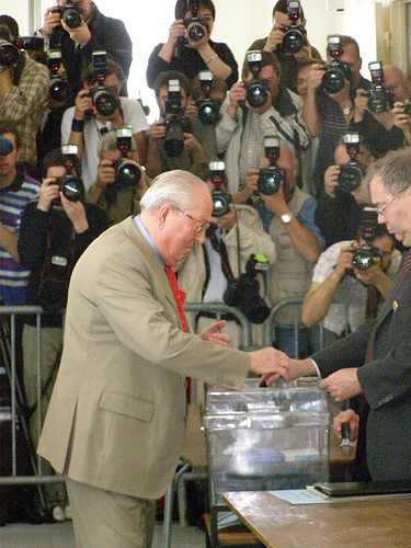 Jean-Marie Le Pen (which elections ?)